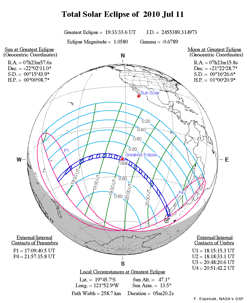 The use of eclipse maps, figures, tables and eclipse predictions in other publications is freely permitted when accompanied by the following credit line: "Eclipse map/figure/table/predictions courtesy of Fred Espenak, NASA/Goddard Space Flight Center."